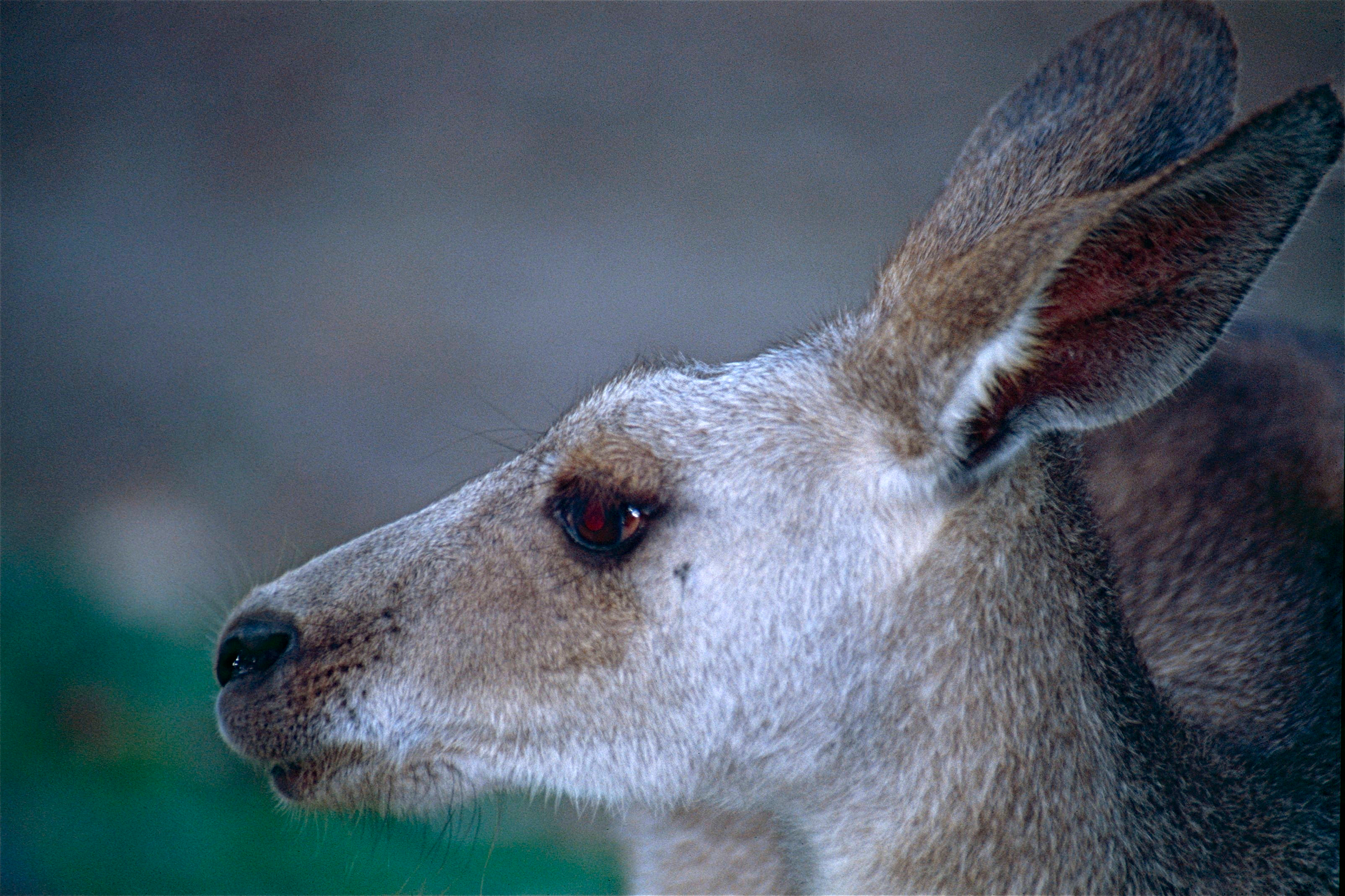 Cape Hillsborough NP, Central Queensland, AUSTRALIA Scanned Slide from Dec 2000